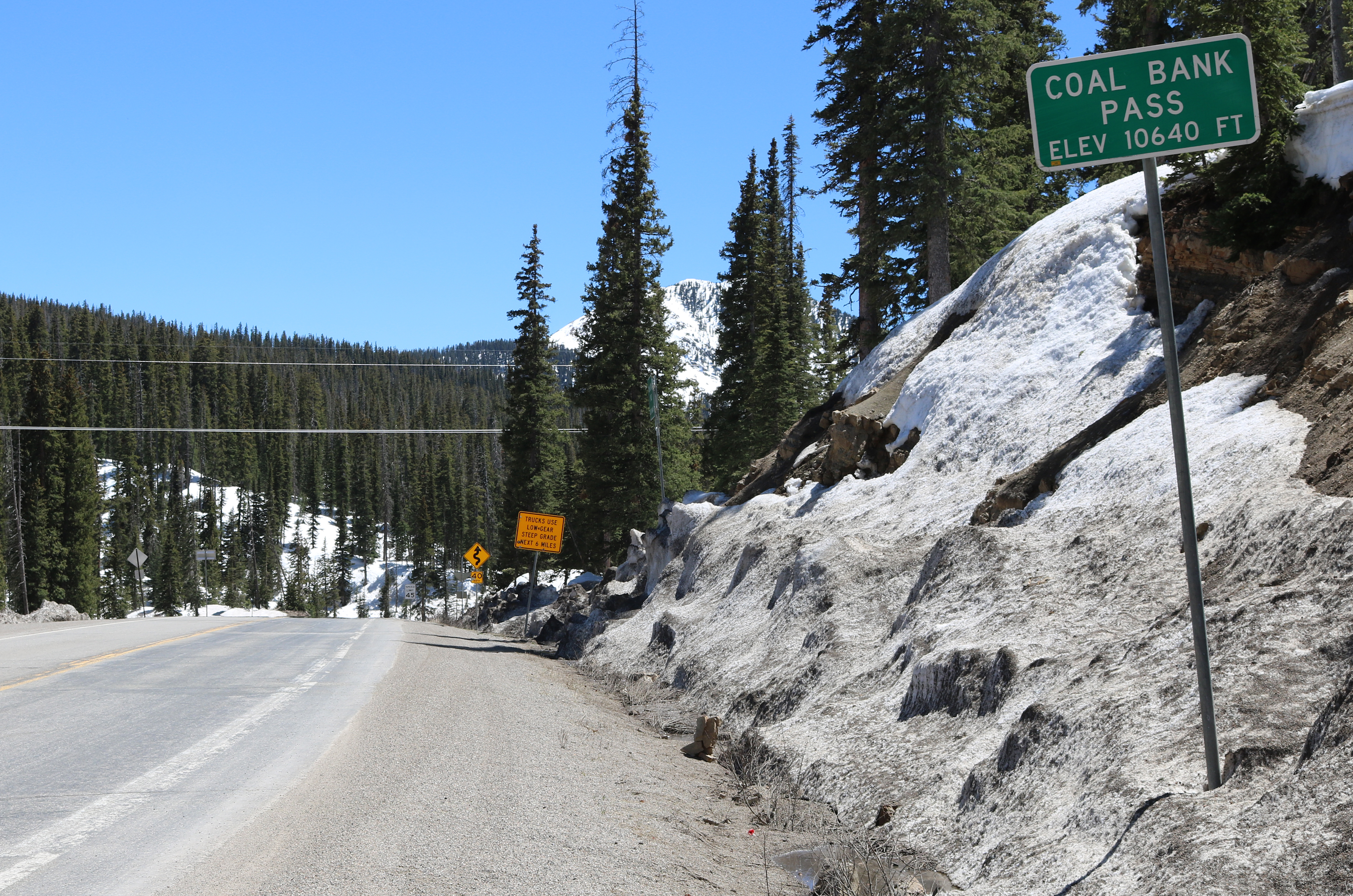 One of the signs at the top of Coal Bank Pass in San Juan County, Colorado. U.S. Route 550 traverses the pass.